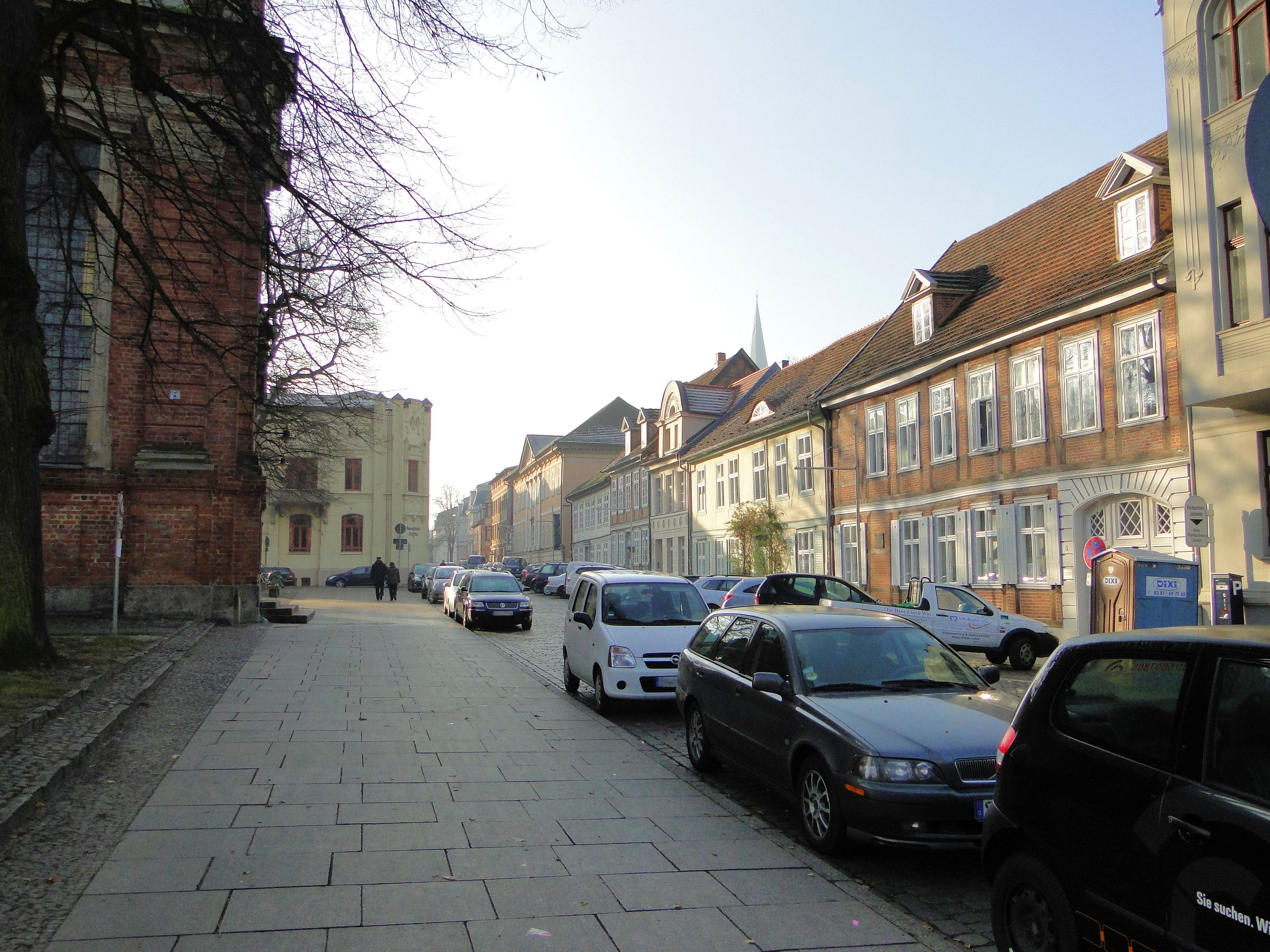 Street Puschkinstraße in Schwerin, Mecklenburg-Vorpommern, Germany